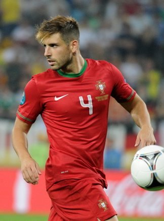 Match between Germany and Portugal during UEFA Euro 2012 that took place in Lviv. Final score was 1:0 (Gómez).